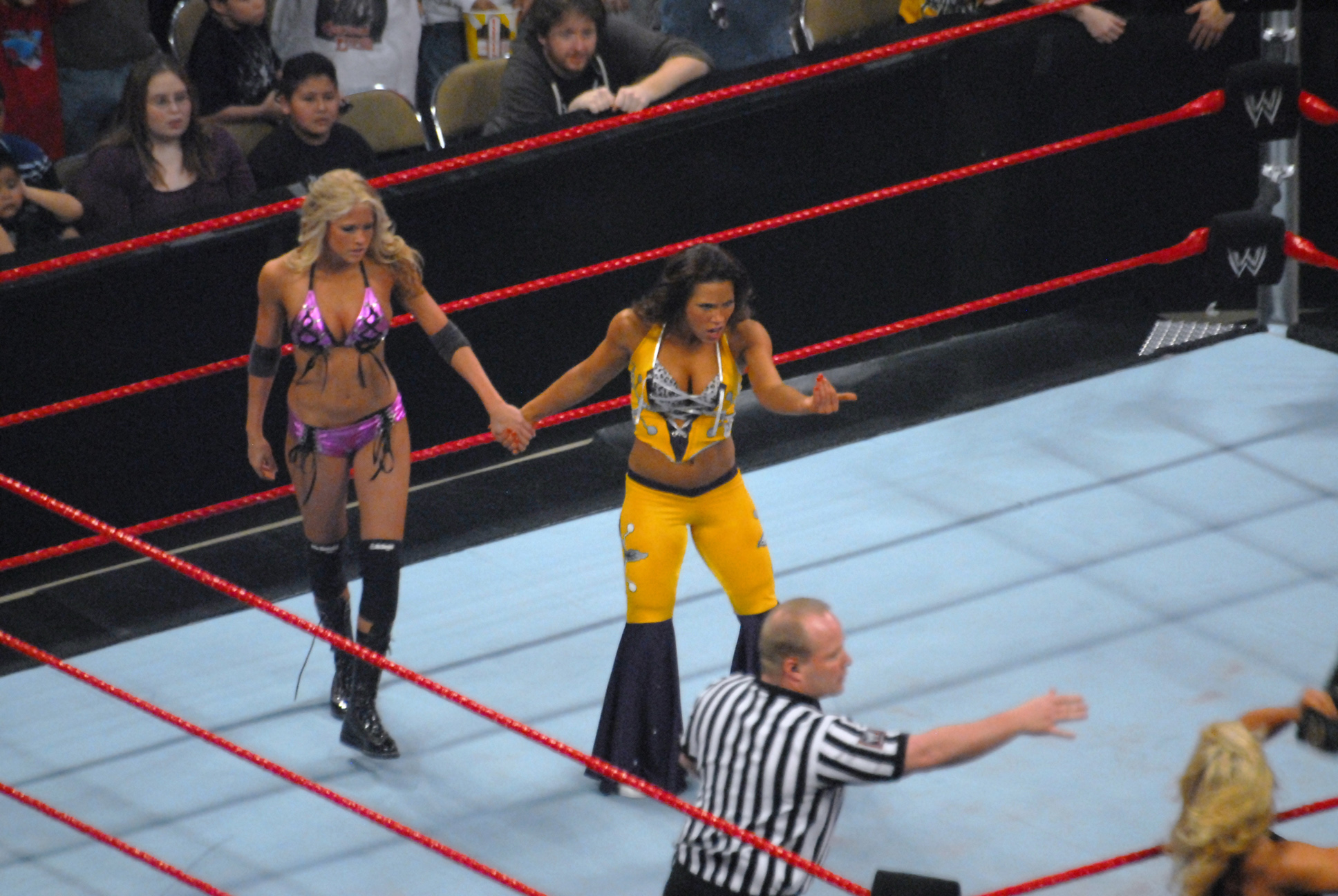 Professional wrestlers Mickie James and Kelly Kelly before a tag team match against Beth Phoenix and Victoria at a WWE Raw show on February 4, 2009.